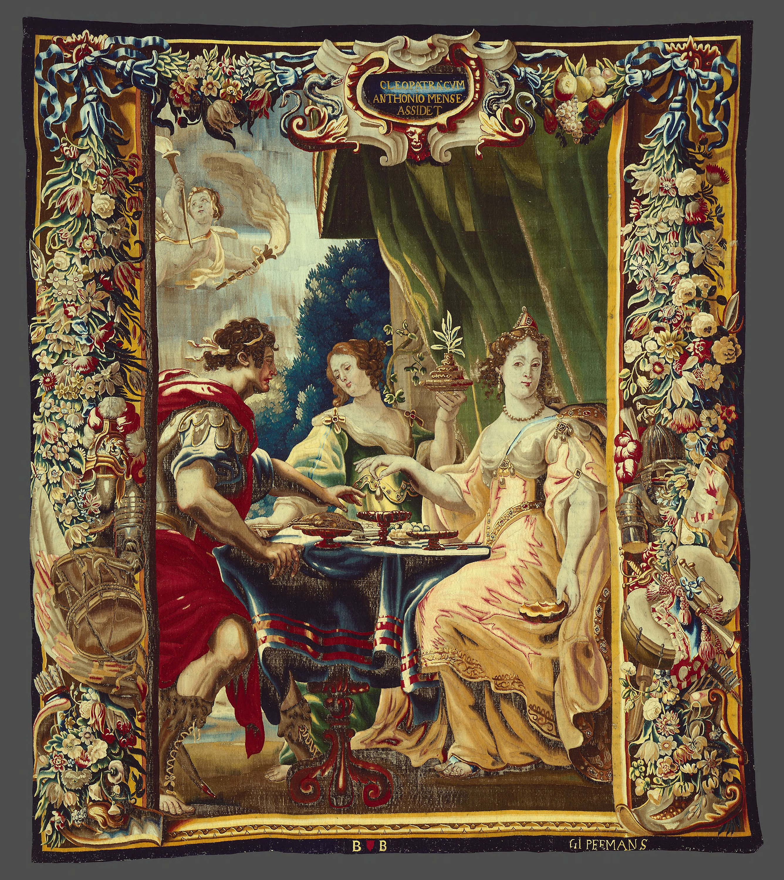 Cleopatra and Antony Enjoying Supper from the Story of Caesar and Cleopatra by Justus Van Egmont